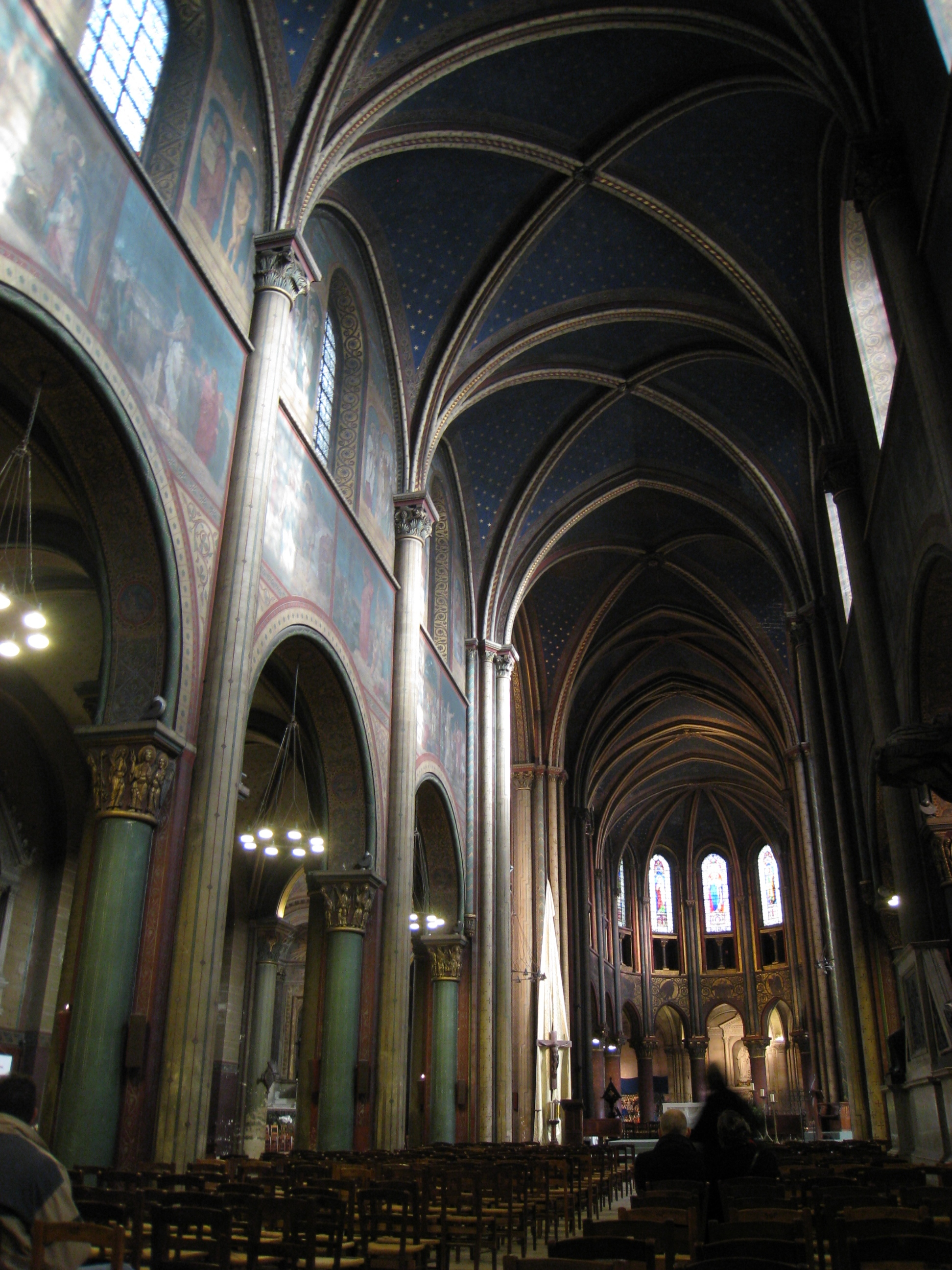 Abbaye de Saint-German-des-Prés, Paris, France - general view of interior.